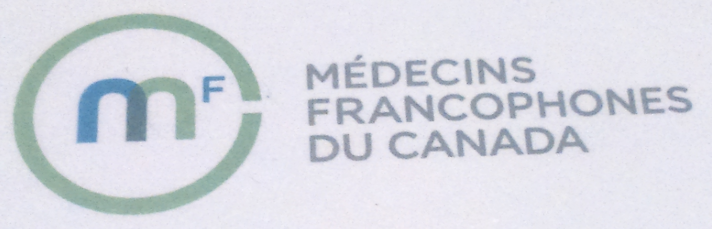 Logo of the Canadian medical organization "Médecins francophones du Canada," which includes many physicians from Quebec, New Brunswick, and other provinces and territories.